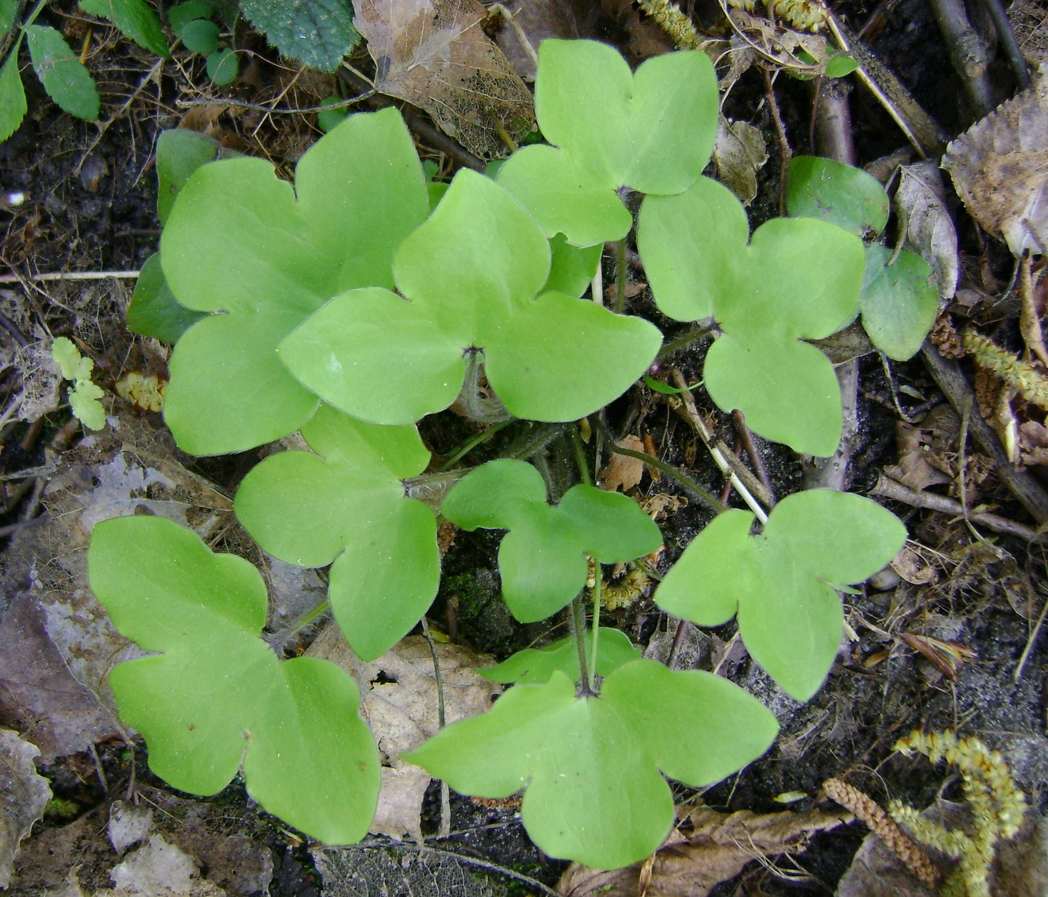 Leaves of Hepatica nobilis. Recz (NW Poland)